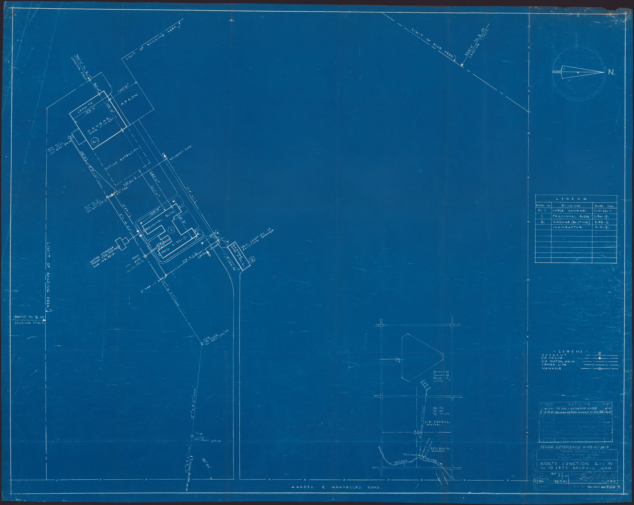 This drawing shows the building and services layout for the R1 Relief airfield at North Junction, Manitoba. The parent airfield is No. 10 Service Flying Training School at Dauphin, Manitoba.